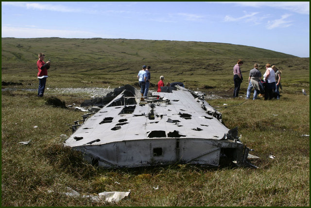 Catalina crash site. Debris from a crashed RAF Catalina on hillside. The aircraft crashed on 19 January 1942, and there were three survivors. Yell (island), Shetland